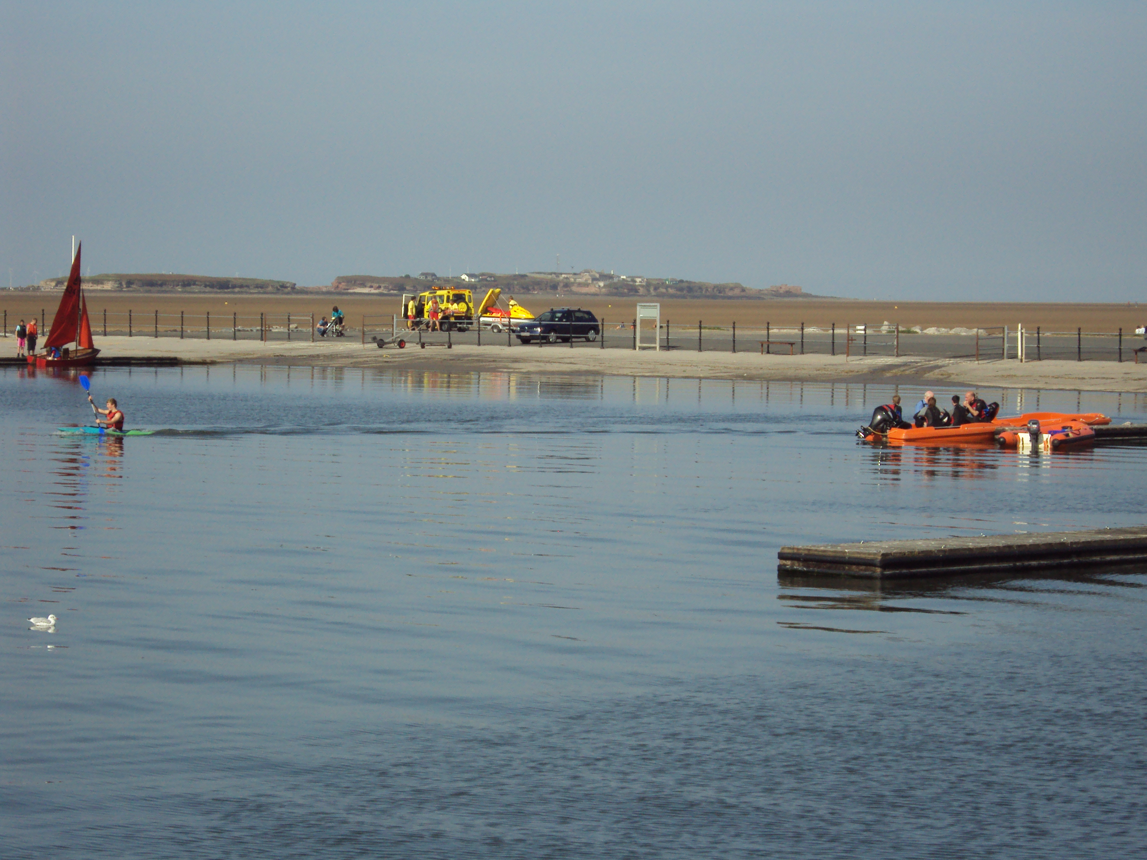 West Kirby Marine Lake, Wirral, England.